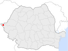 Location of Sânnicolau Mare in Romania.